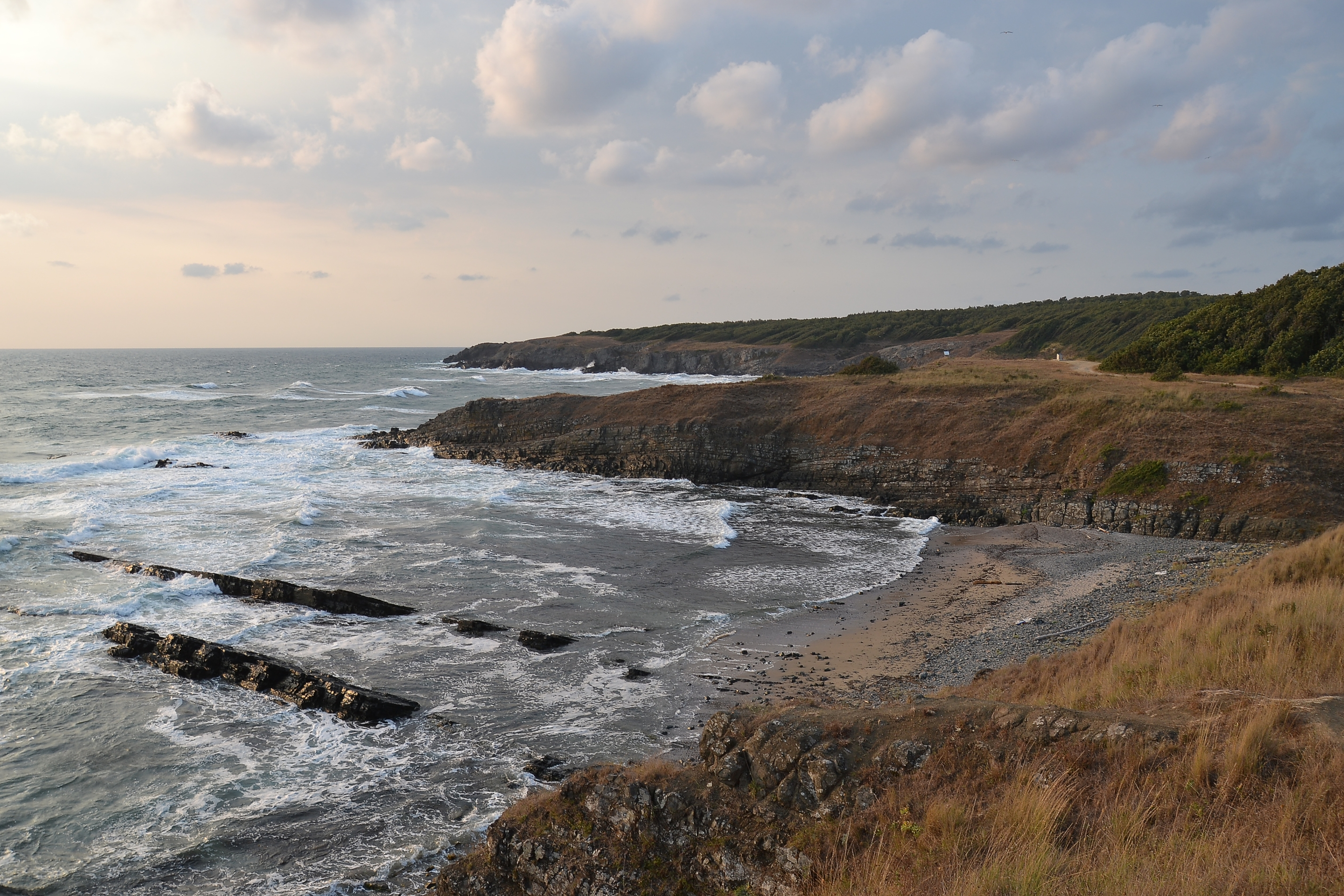 Sinemorec, Bulgaria - rocks